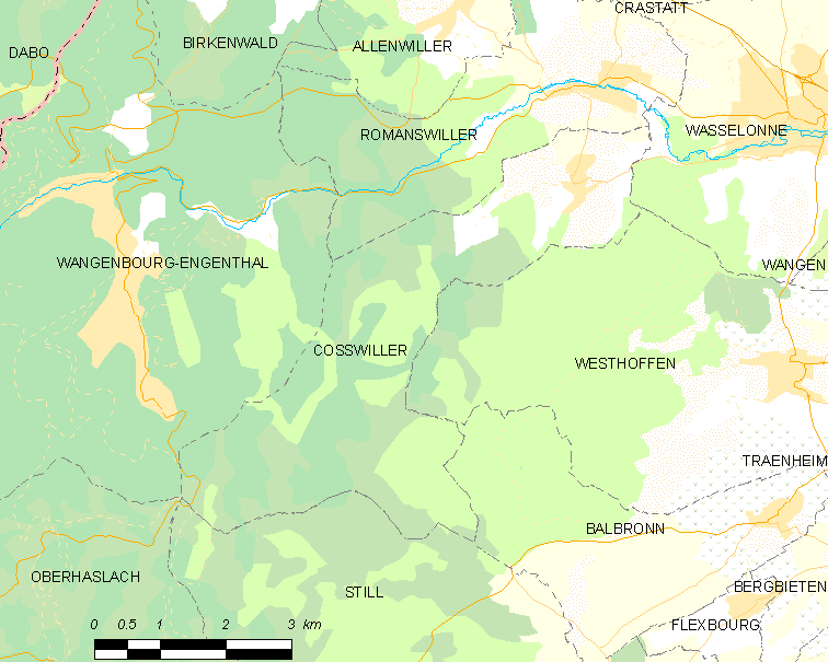 Map of French municipality